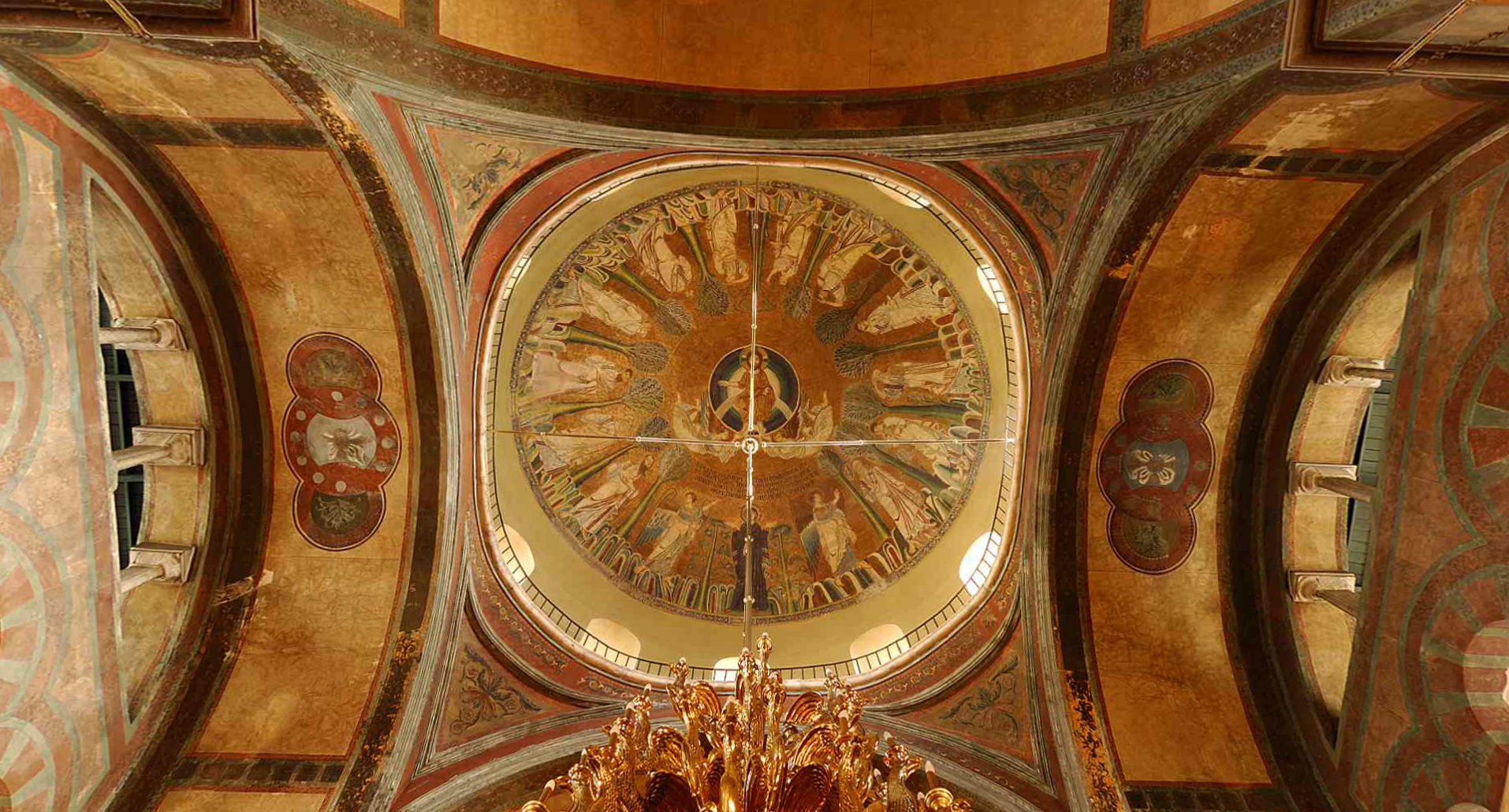 Dome with mosaic of Hagia Sophia in Thessaloniki